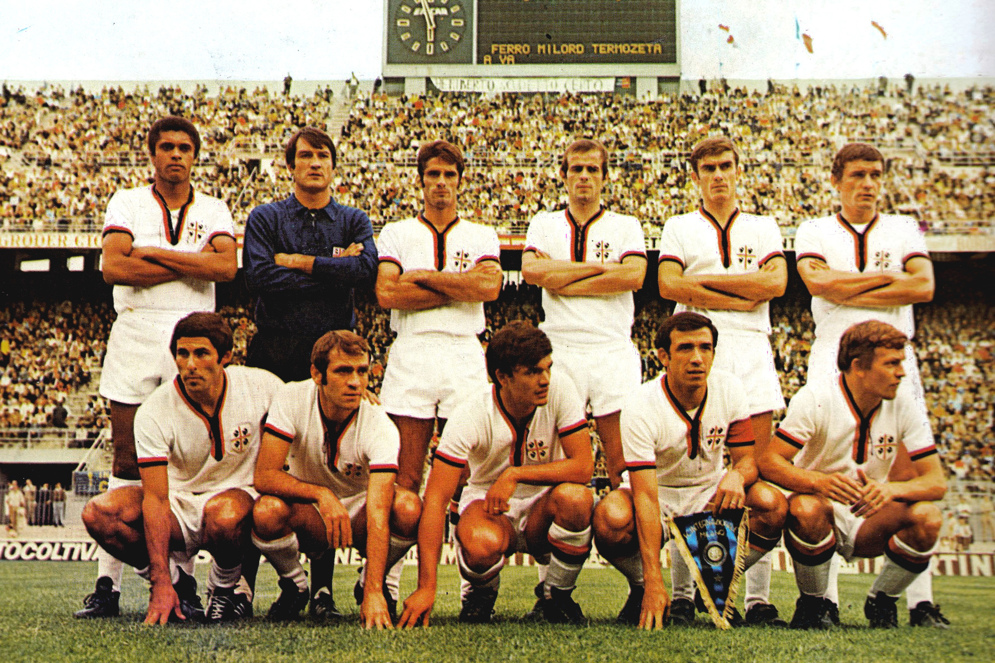 A line-up of U.S. Cagliari before a 1969-70 pre-season friendly match in Milan vs FC Internazionale. Cagliari went on winning the League at the end of the season. From left to right, standing: Claudio Olinto de Carvalho "Nené", Enrico Albertosi, Angelo Domenghini, Comunardo Niccolai, Giuseppe Tomasini, Luigi "Gigi" Riva. Bent on their heels: Ricciotti Greatti, Mario Martiradonna, Sergio "Bobo" Gori, Pierluigi Cera, Cesare Poli.